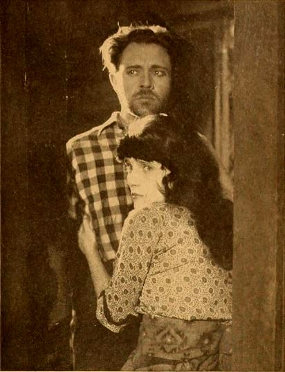 Still from the American film The Courage of Marge O'Doone (1920) with Pauline Starke and Niles Welch, from an adaption of the film on page 71 of the July 1920 Motion Picture Magazine.